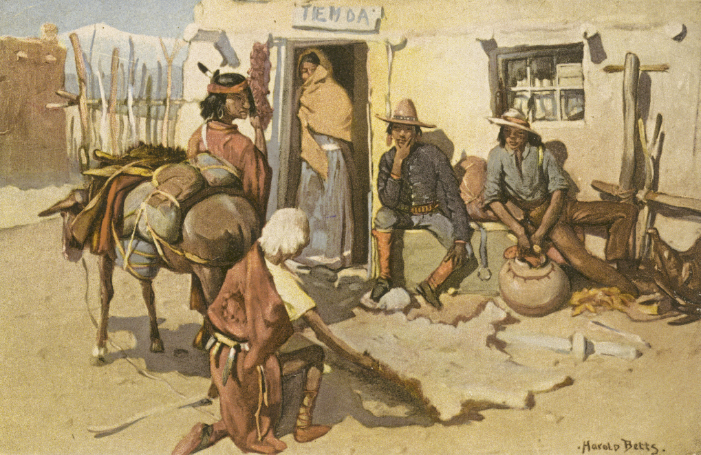 Postcard series number: 79012 Exclusively contract issues, including Fred Harvey's tourist businesses in the American Southwest. Original: see tiff-File